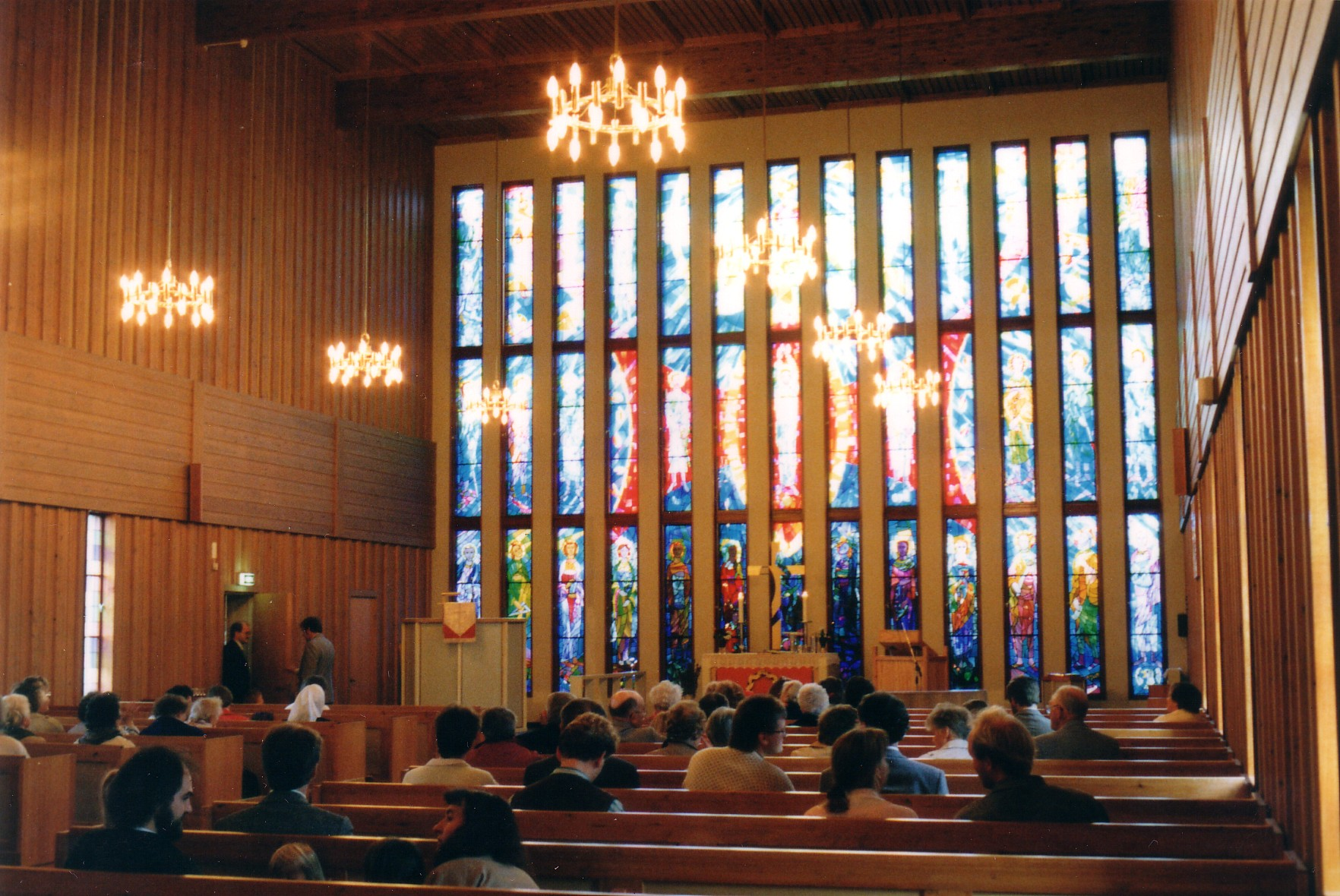 Interior of Båtsfjord Church in Båtsfjord, Finnmark, North Norway